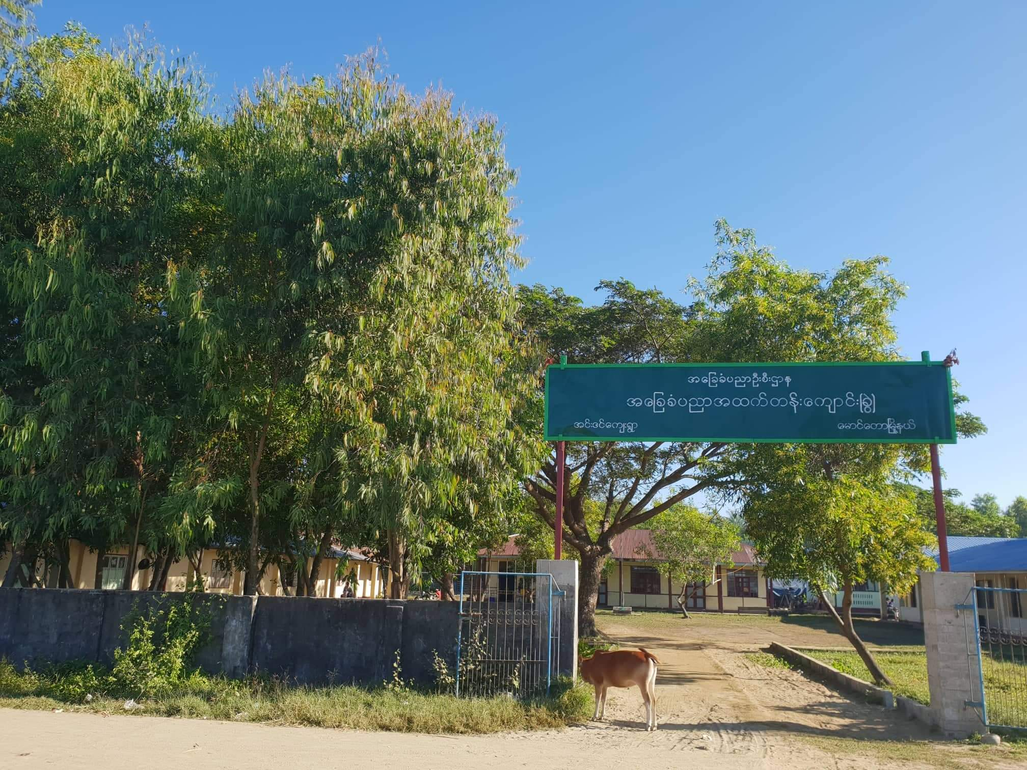 Inn Din Village, Maungdaw Township, Rakhine State မြန်မာဘာသာ: ရခိုင်ပြည်နယ်၊ မောင်တောမြို့နယ်၊ အင်းဒင်ကျေးရွာ